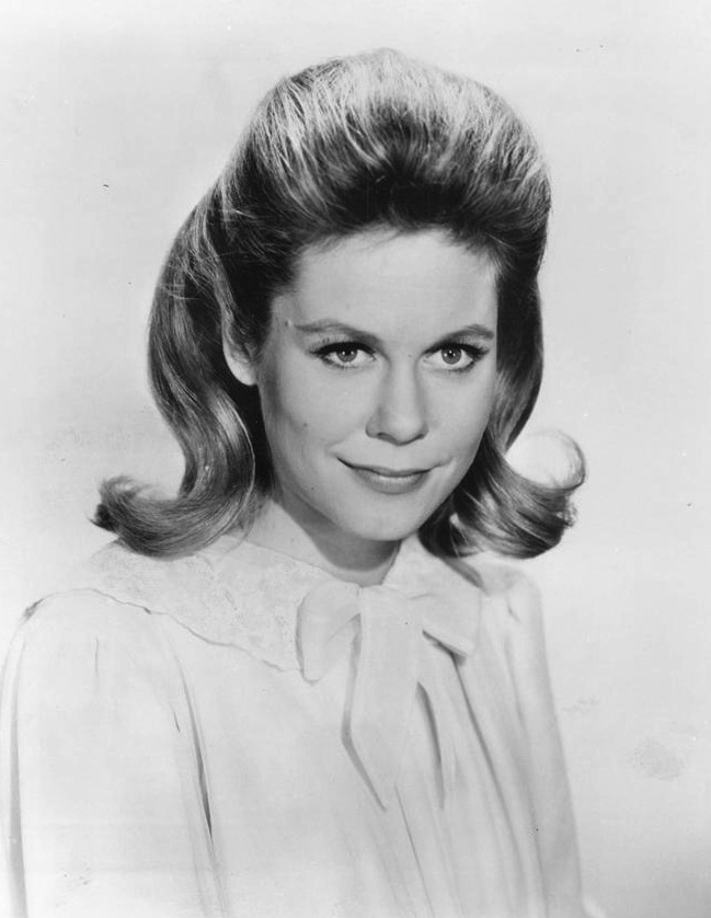 Publicity photo of Elizabeth Montgomery from Bewitched.